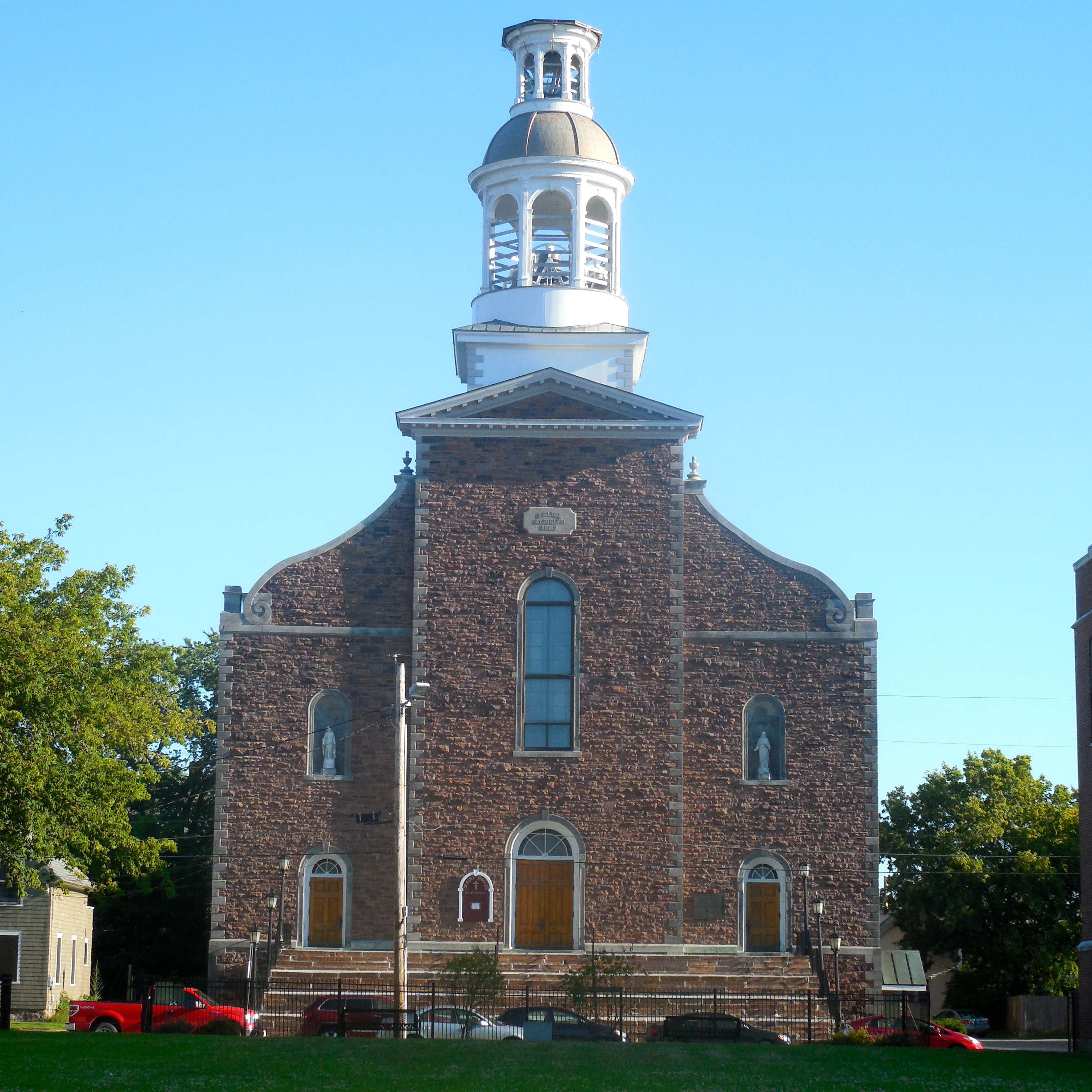 Co-Cathedral of Saint Joseph in the Old North End of Burlington, Vermont: Aug 2015